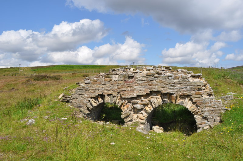 Rookhope Chimney Flue, Data from Geograph: Description: Behind me was the Lintzgarth lead smelting mill. Gasses in a flue were sent over a 6 arch bridge before entering a straight section heading up onto the moors. The chimney got rid of the poisionous gasses but also provided a surface... more ICBM: 54.782296486448, -2.1192228190271 Location: (about 1 km from) near to Rookhope, County Durham, Great Britain.